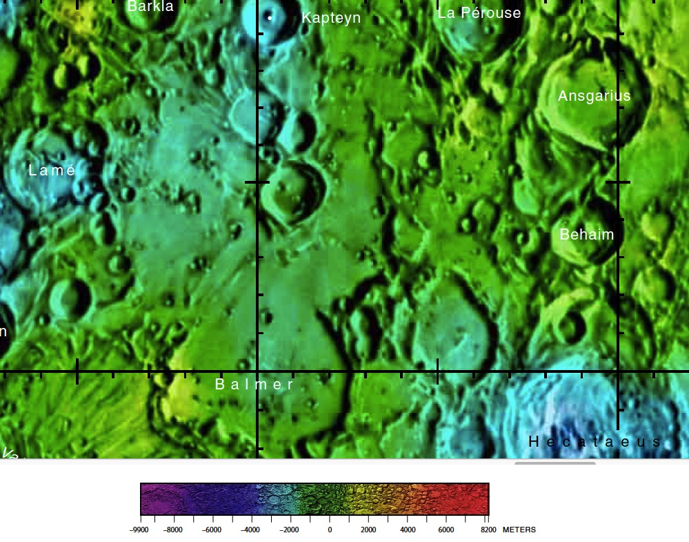 Part of the USGS near side lunar chart.